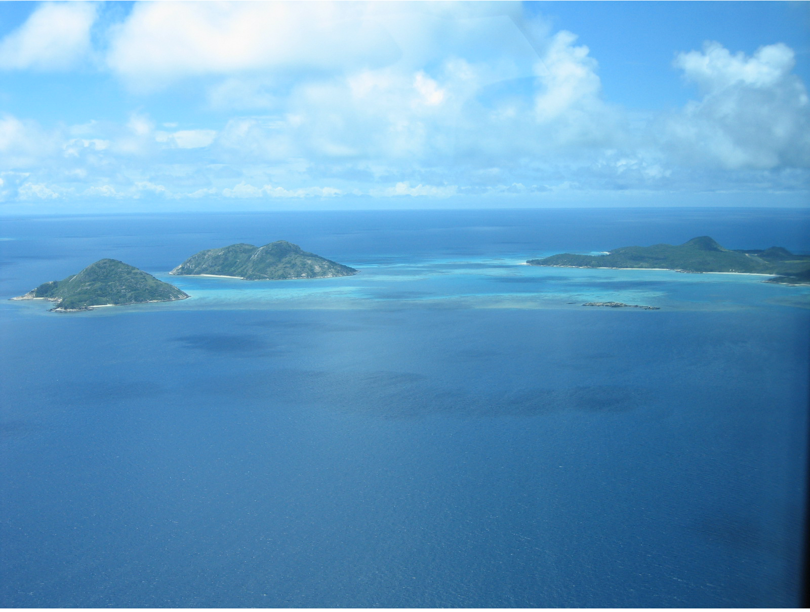 Diverse Coral Reef Systems Serve As Ideal Experiments for Niche and Neutral Theories. Surveys of coral reefs on the Great Barrier Reef in Australia, and elsewhere in the Indo-Pacific, are prompting both niche and neutral theorists to pay greater attention to the role of environmental fluctuations on species diversity patterns.